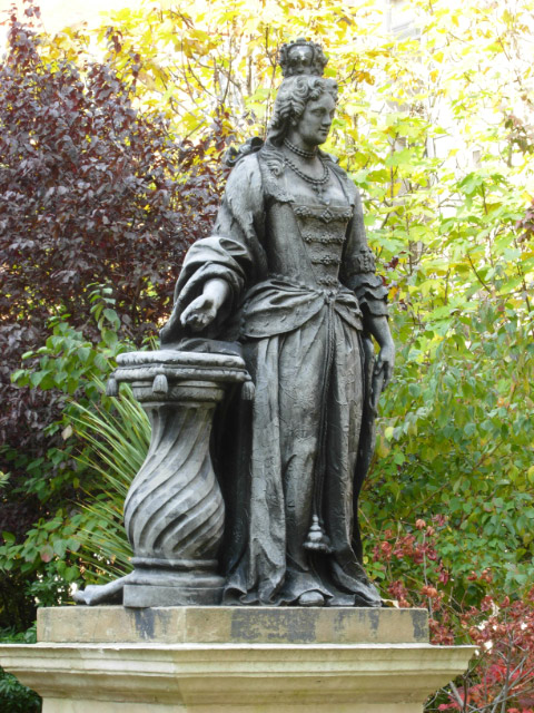 According to a plaque on the plinth of this statue at the northern end of Queen Square, this was believed in the 19th century to have depicted Queen Anne, but is now thought to represent Queen Charlotte, consort of George III.